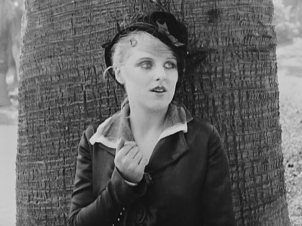 A black and white still of Cecile Arnold in Those Love Pangs (1914), directed by Charlie Chaplin.